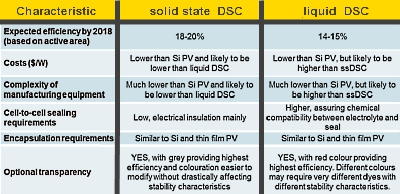 Major differences between DSC & ssDSC